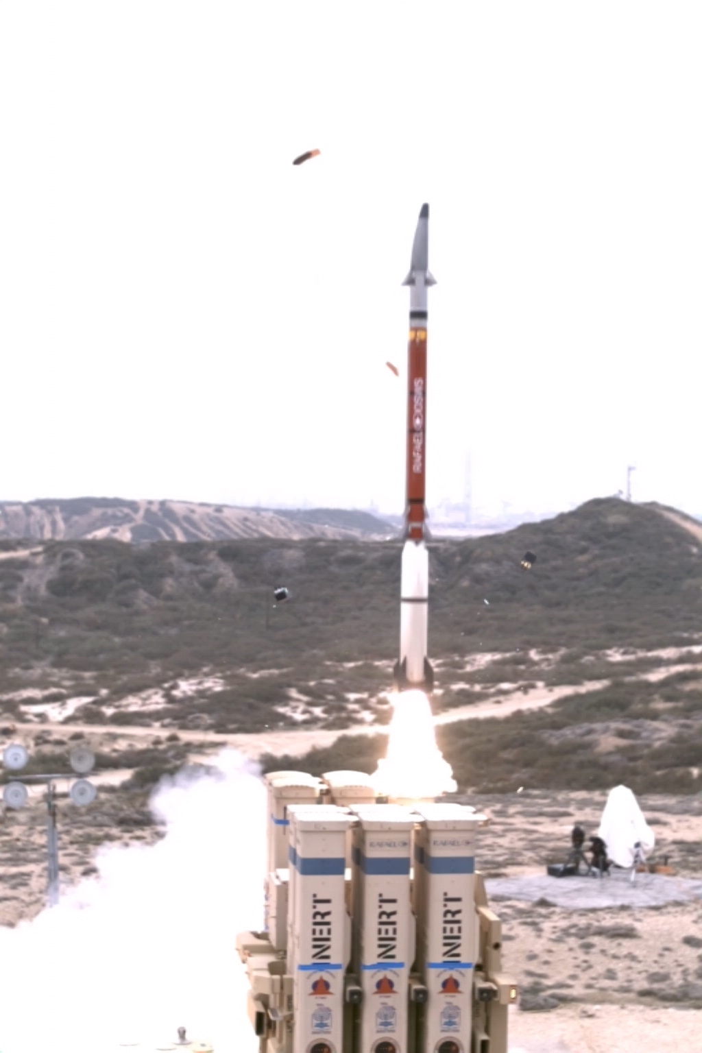 The Israel Missile Defense Organization (IMDO) of the Directorate of Defense Research and Development (DDR&D) and the U.S. Missile Defense Agency (MDA) successfully completed a test series of the David’s Sling Weapons System, a missile defense system that is a central part of Israel’s multi-layer anti-missile array. This test series, designated David’s Sling Test-5 (DST-5) was the fifth series of tests of the David’s Sling Weapon System. This test series was conducted at YANAT Sea Range, operated out of Palmachim Air Base, Israel.